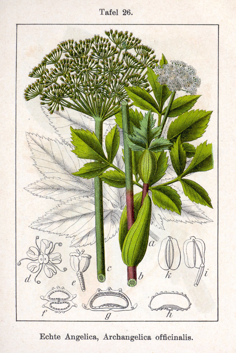 Angelica archangelica L., syn. Archangelica officinalis Hoffm. Original Description Echte Angelika, Archangelica officinalis